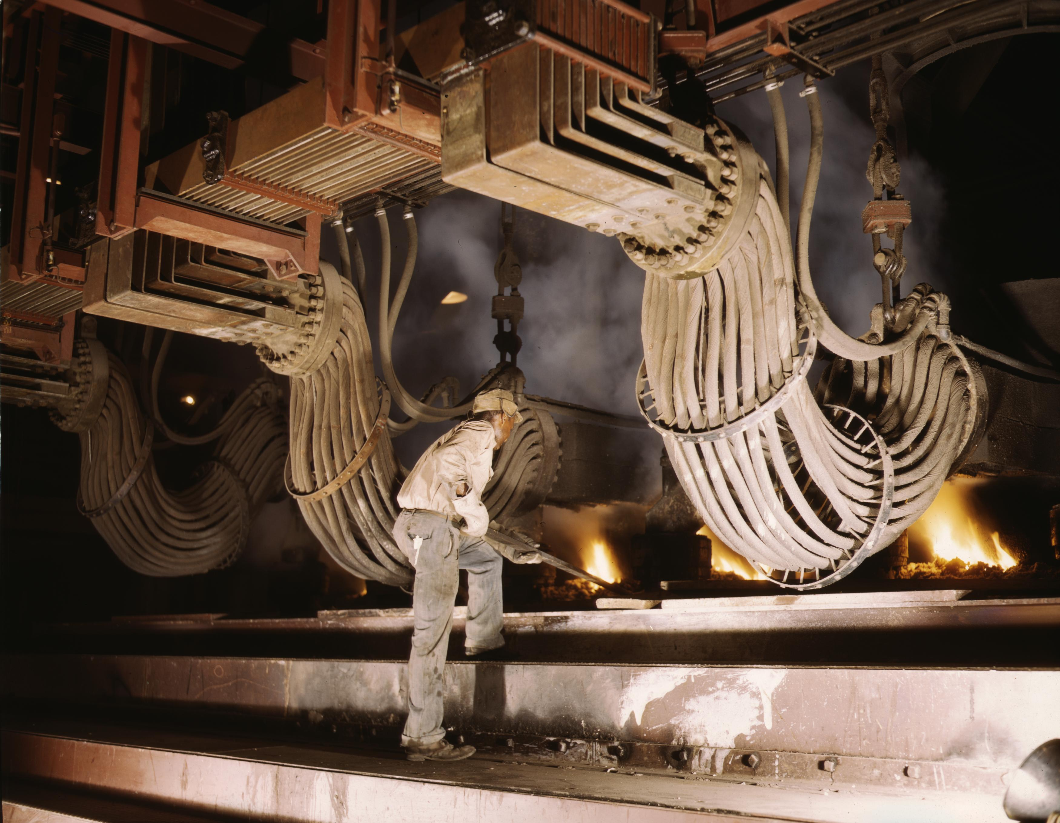 Title: Large electric phosphate smelting furnace used in the making of elemental phosphorus in a TVA chemical plant in the Muscle Shoals area, Alabama